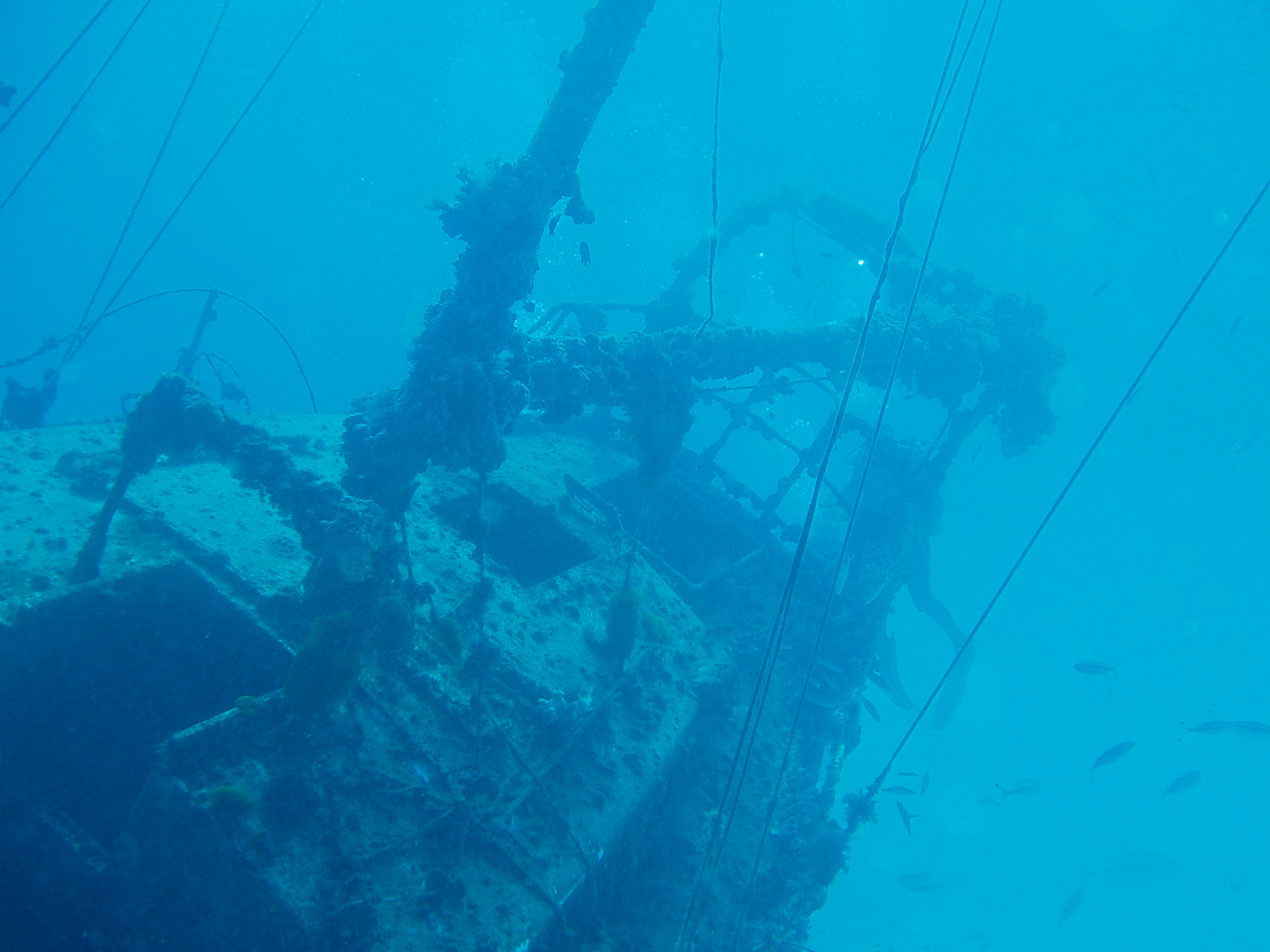 The wreck of the Severance, Lady Elliott Island, Australia